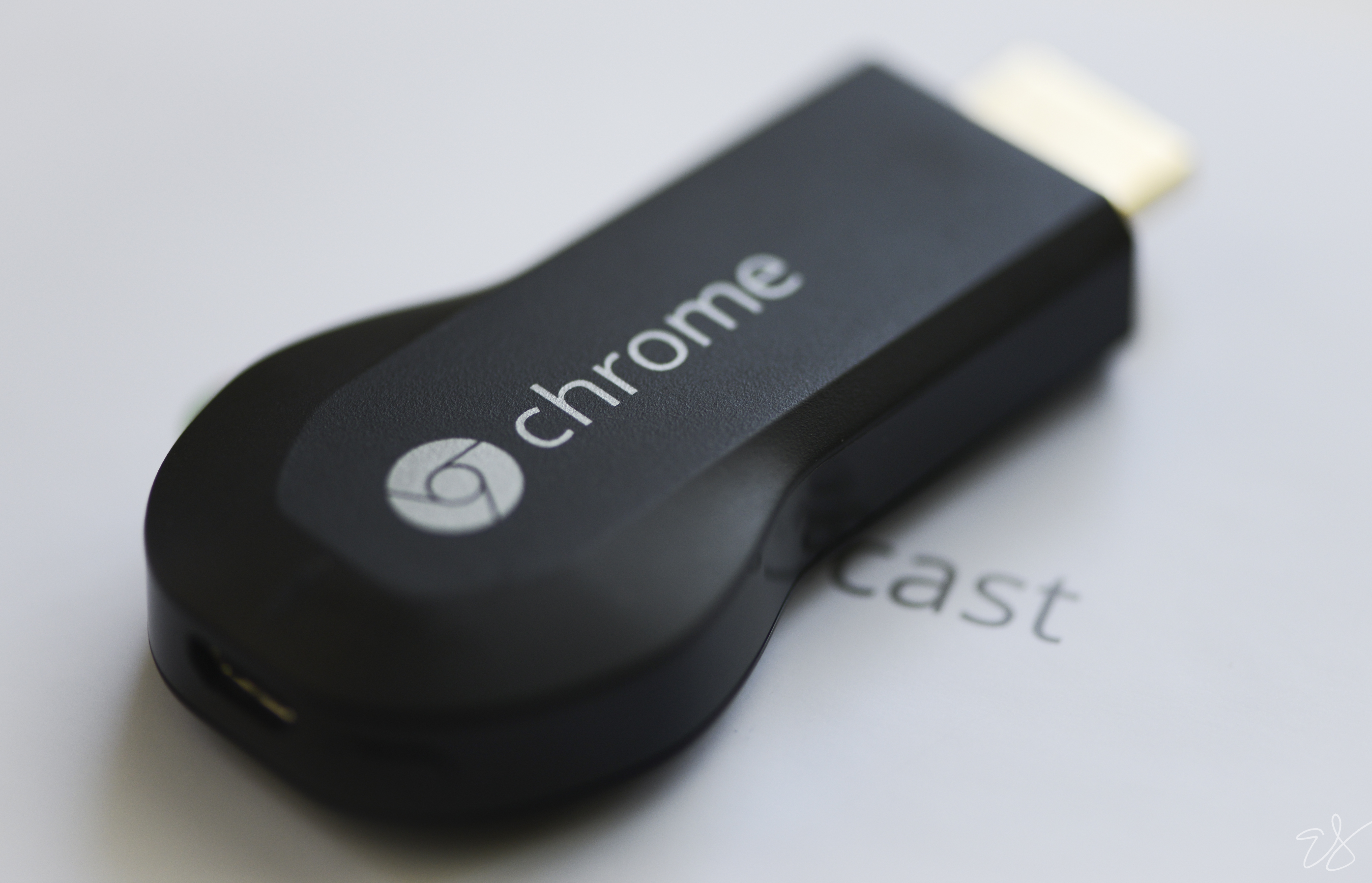 The Google Chromecast digital media streaming adapter